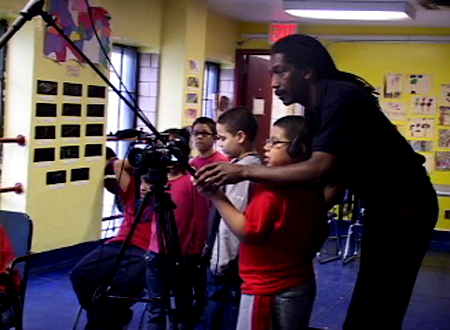 James P. Nichols with students at Parks, NY.